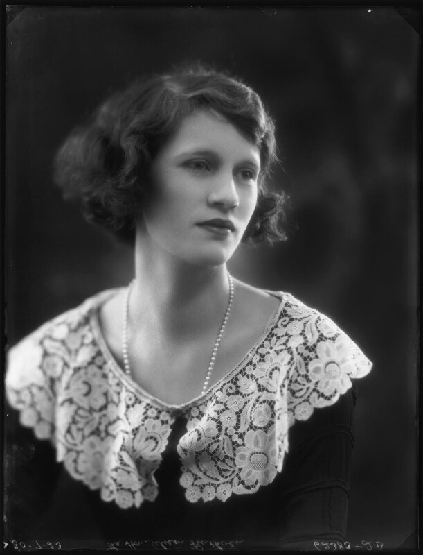 Hon. Alison Mary Barran (née Hore-Ruthven) by Bassano Ltd whole-plate glass negative, 30 July 1923 Given by Bassano & Vandyk Studios, 1974 Photographs Collection NPG x122623